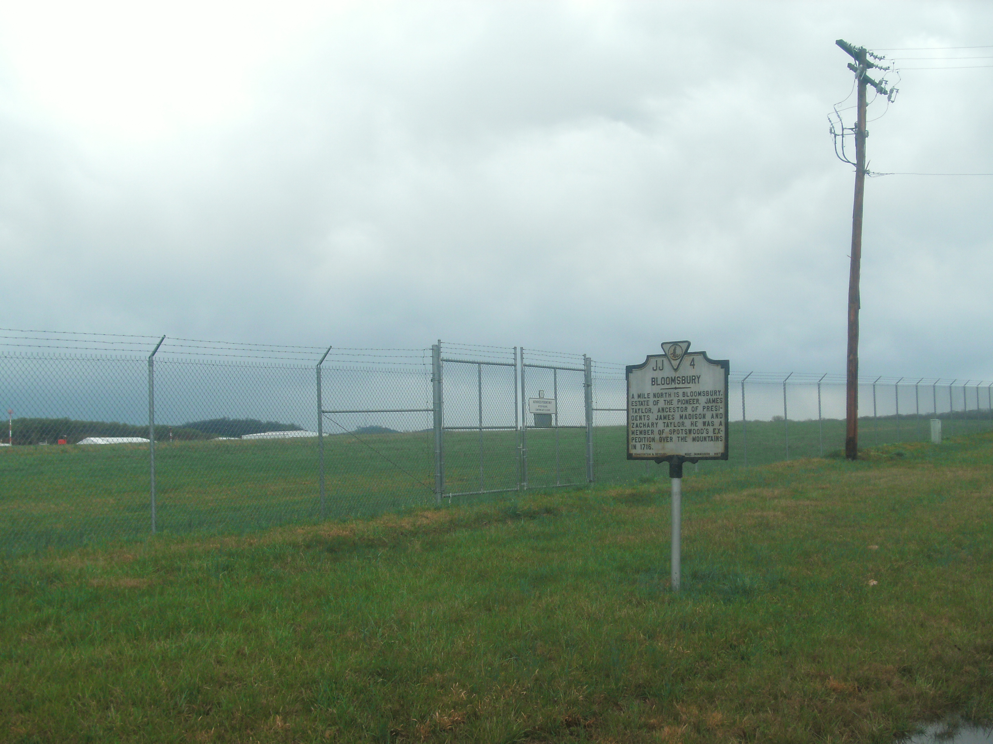 Bloomsbury